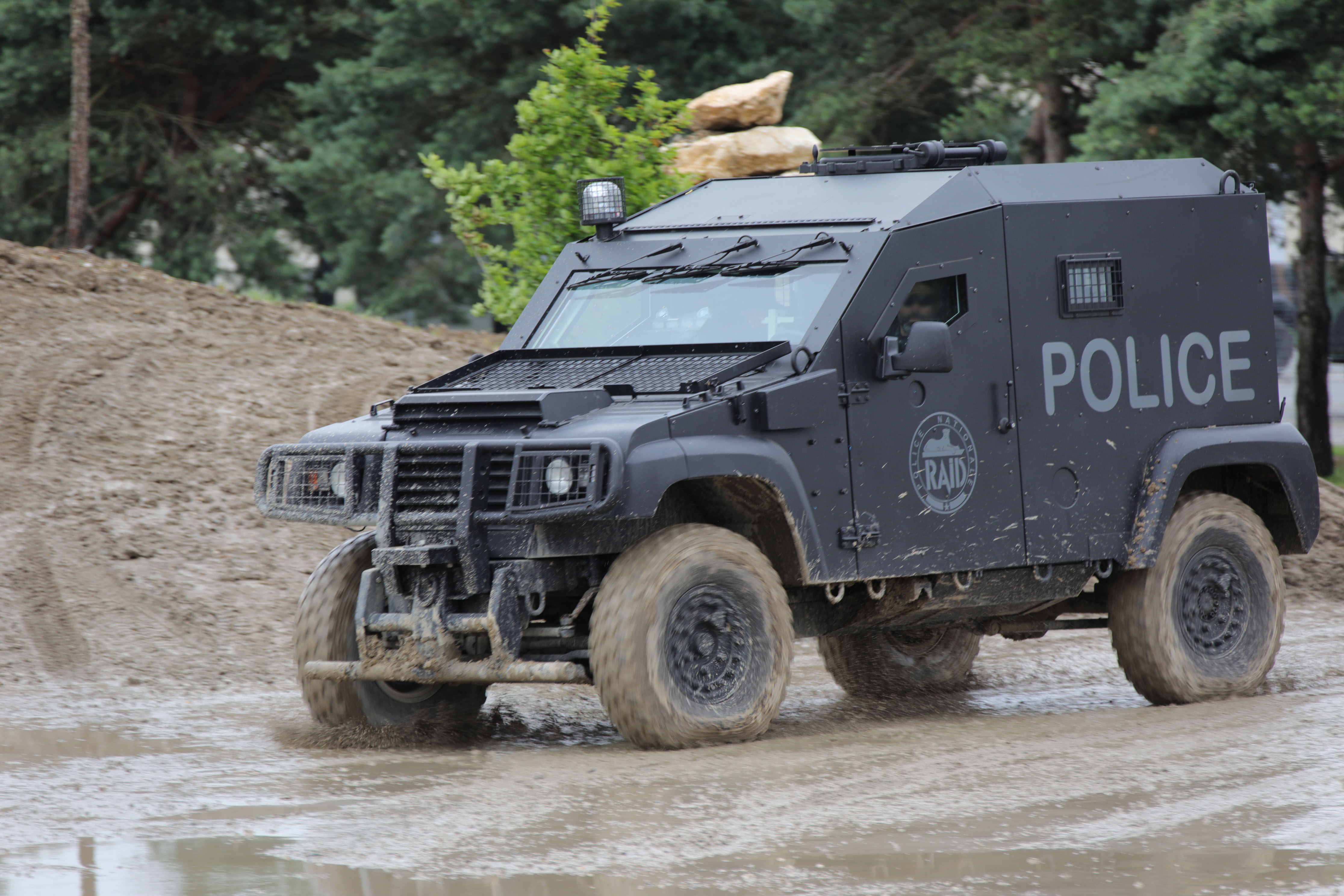 French police RAID armoured vehicle. June 2018